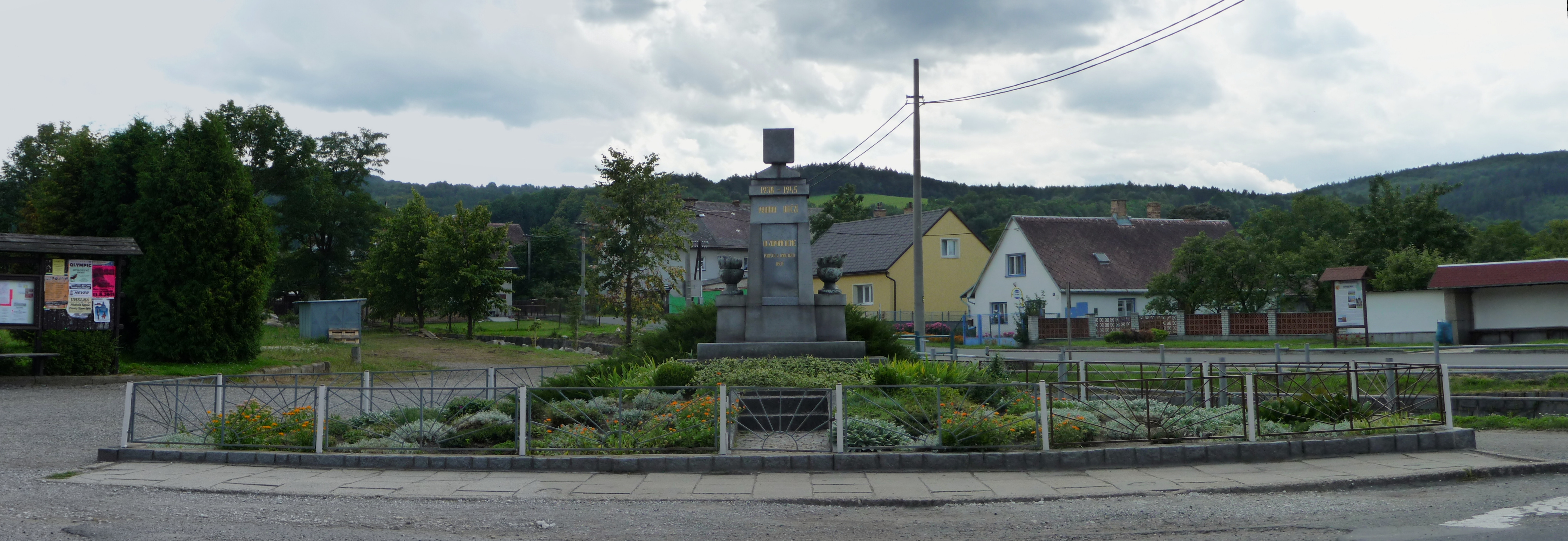 Memorial to the victims of German occupation in Uhelná (Olomouc Region, Czech Republic).